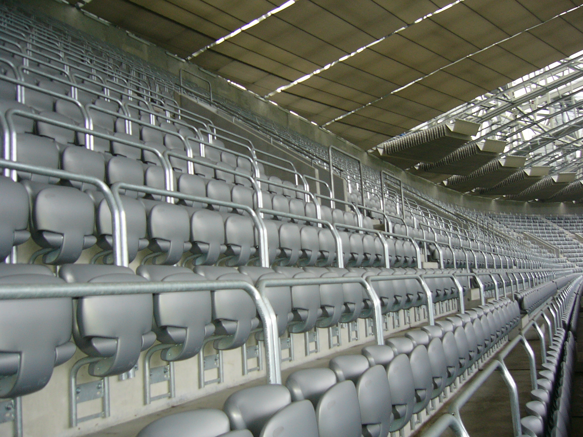 Seats at Allianz Arena (Munich, Germany) — Row 3 note: steepest seat arrangement of a FIFA certified stadium in the world